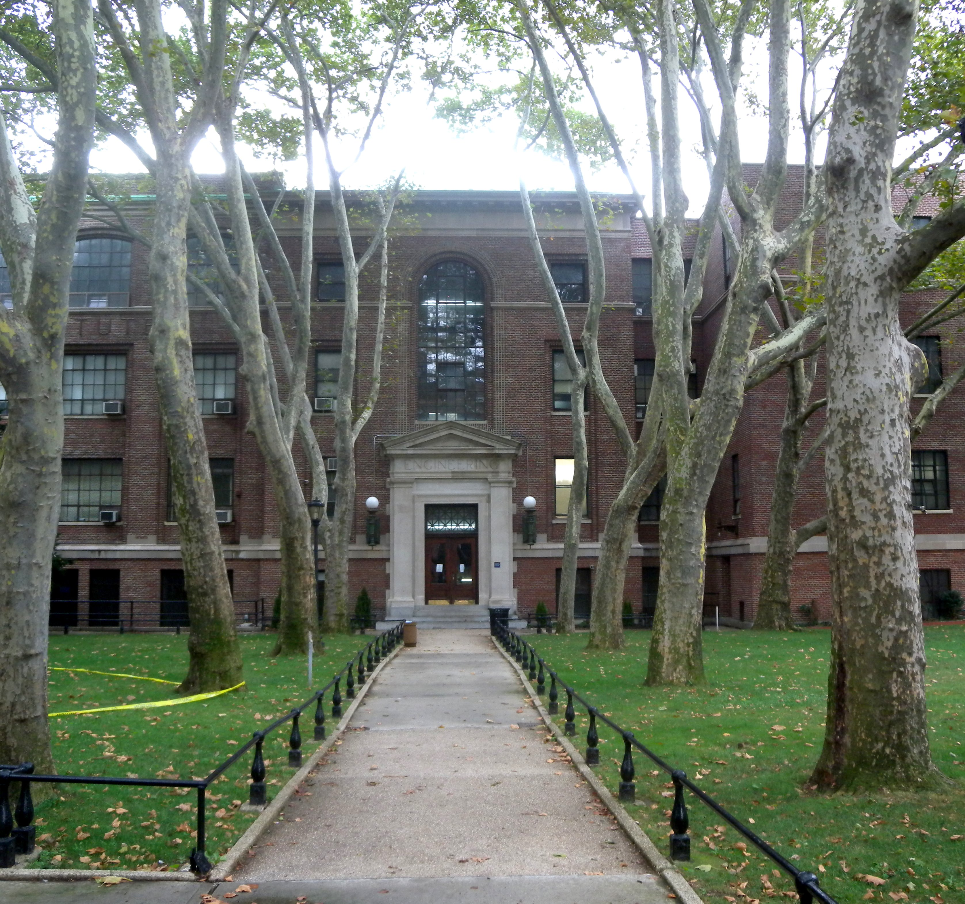 Looking east at Pratt Engineering on a rainy midday, along a Platanus occidentalis avenue.